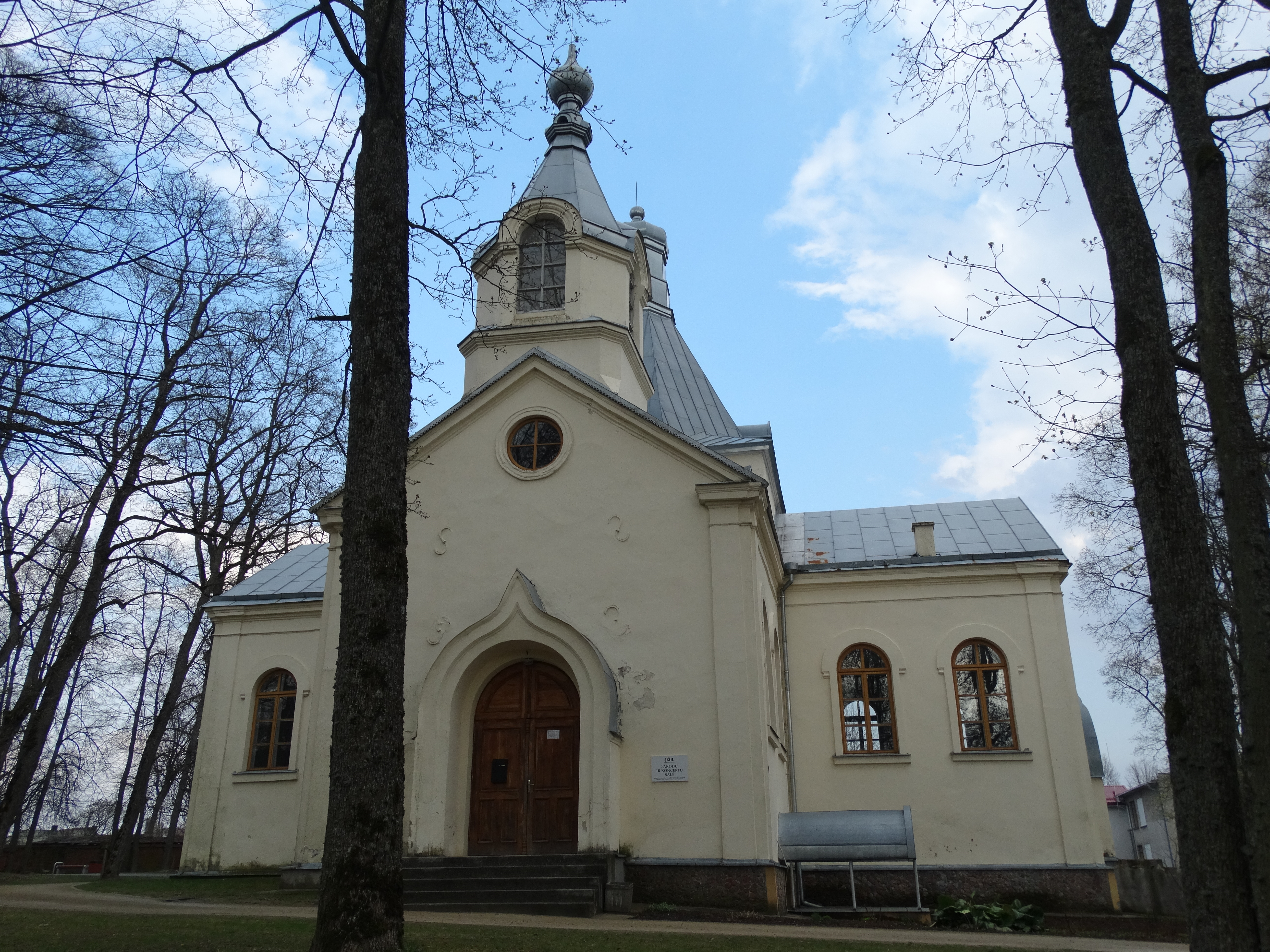 Orthodox church in Jurbarkas, Jurbarkas, Lithuania